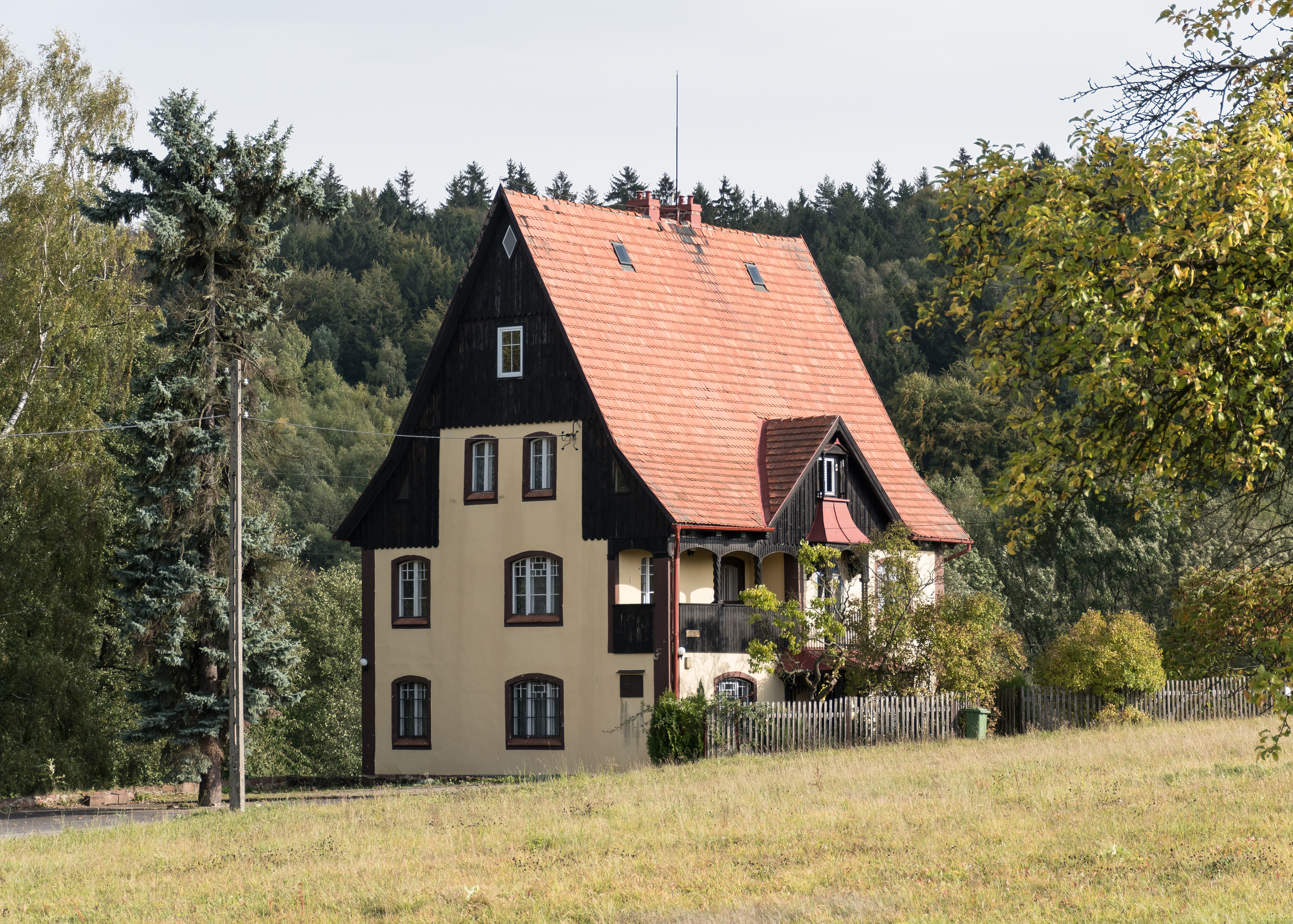 Joseph Wittig Museum in Nowa Ruda